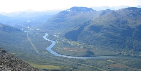 Picture of the Bardu valley and the Bardu river from Istind in the directin of Setermoen.